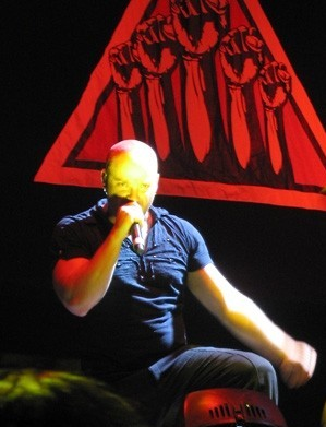 Disturbed live in East Troy